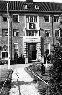 German headquarters in the Minor seminary on the Arnhemseweg 348 te Apeldoorn. It was named after General Mülverstedt.